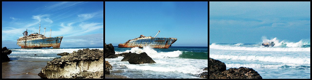 SS America in documentary triplet by art photographer Fred Kuhne. Artwork was released by the author for free use on Wikipedia and similar projects and under CC 2.0.